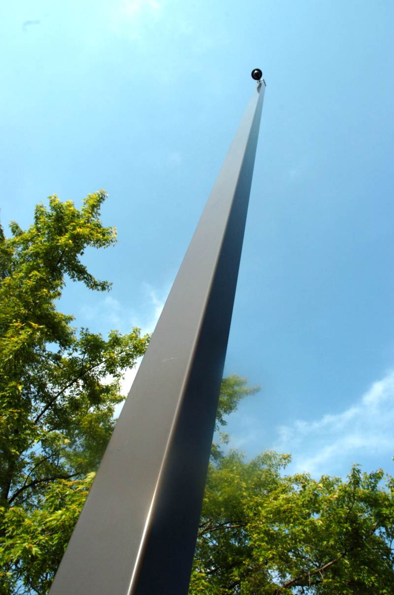 Sur-veillance: Eye-in-the-sky "Surveillance" is French for "to watch from above". This "eye in the sky" surveillance dome camera on a high steel pole embodies the quintessential watchful gaze from above. This picture was captured at McMaster University on Saturday June 5th, 2004, after an Alumni Hall of Fame (McMaster Gallery) induction ceremony. The pole, manufactured in 2003, is a DYNAPOLE CANADA hollow structural steel pole with screw down base on J-bolts set in concrete in the parking lot outside the new student services building where the June 4th dinner banquet took place. The picture was captured using a modified Nikon D2h. For other similar pictures, see